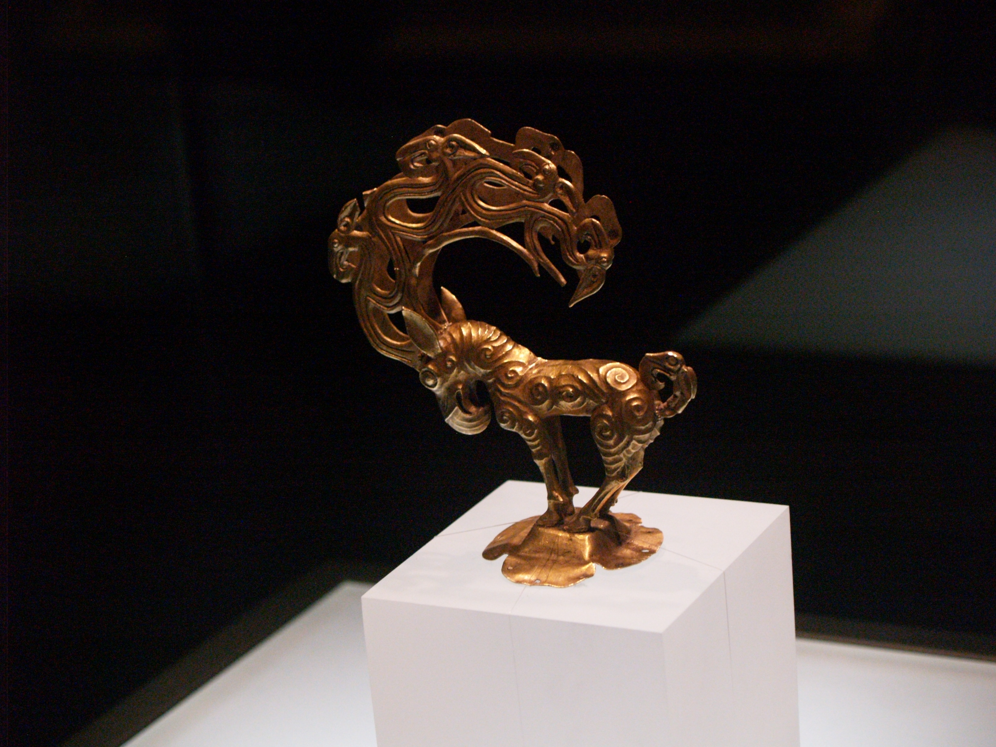 Golden monster from Warring States China, Shaanxi History Museum Info provided by the museum shown below: Gold Monster Warring States Period (475-221 BC) Excavated from Nalin Gaotu village, Shenmu County